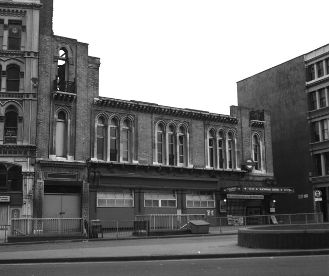 Blackfriars Underground station The exterior of the station as seen in 1977. This location is now much changed.